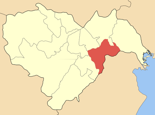 Locator map of Melikis municipality (Δήμος Μελίκης) at Imathias perfecture, Greece.